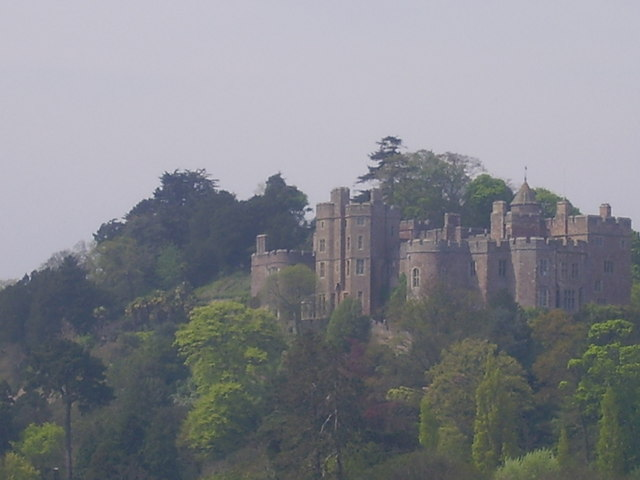 Dunster Castle, off the Taunton to Minehead Road